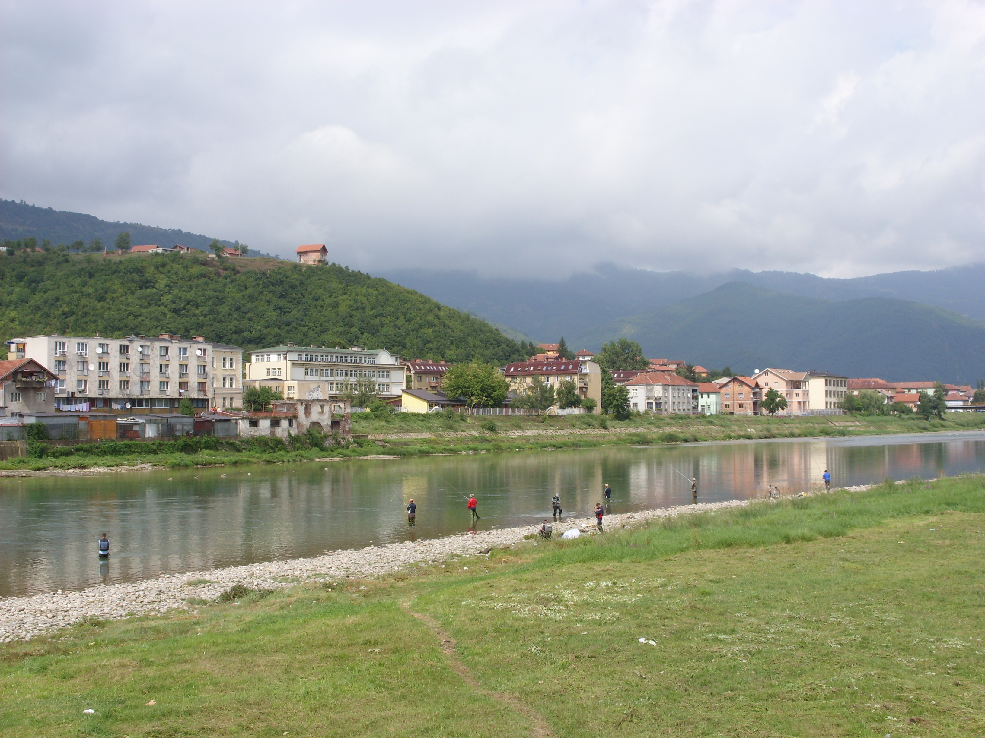 Fishermen on Drina River in Goražde, Bosnia Hornjoserbsce: Wudźerjo při rěce Drina w Goraždźe, Bosniska